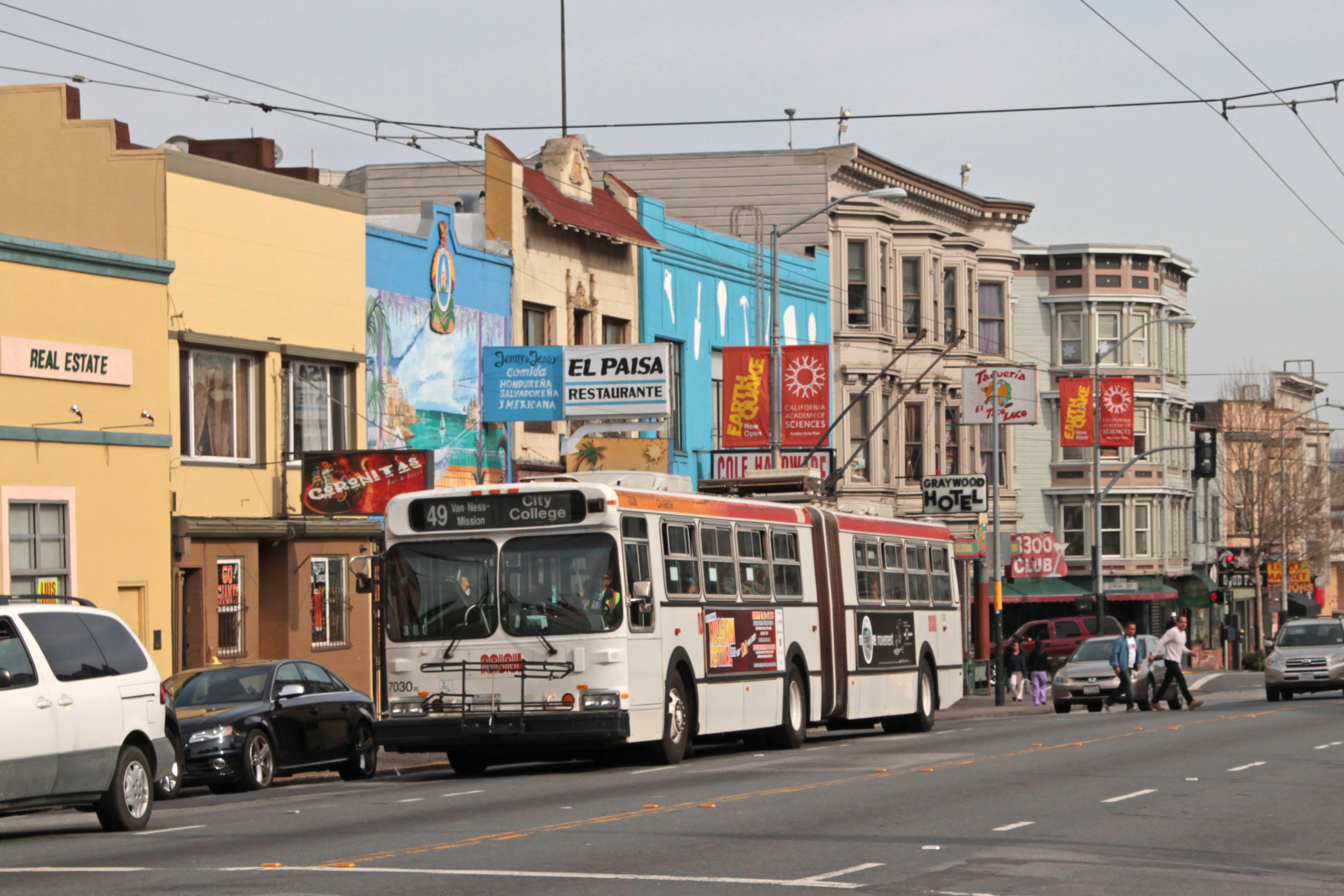 SF MUNI's New Flyer / General Electric E60 N° 7030 on a Line 49 Service on Mission Street near 29th Street.